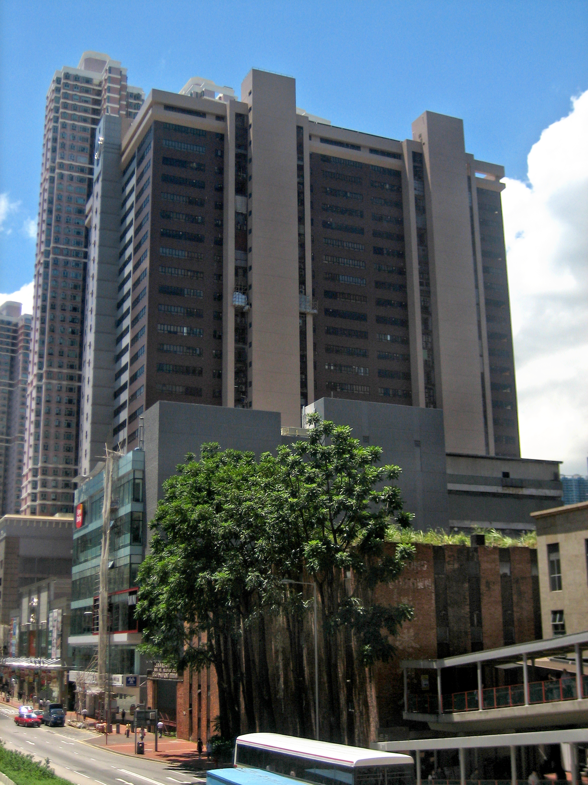 CDW Building